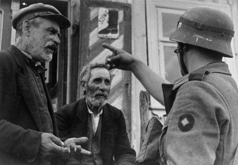 Oberschütze of the German Wehrmacht. Propaganda Company 612. All of a sudden Lithuanian Jews have much to tell. A little later they are handed broom and shovel to clean up. Pressefotograf: Hanisch. Location: Radum/ Lithuania. Date: June 24 1941.